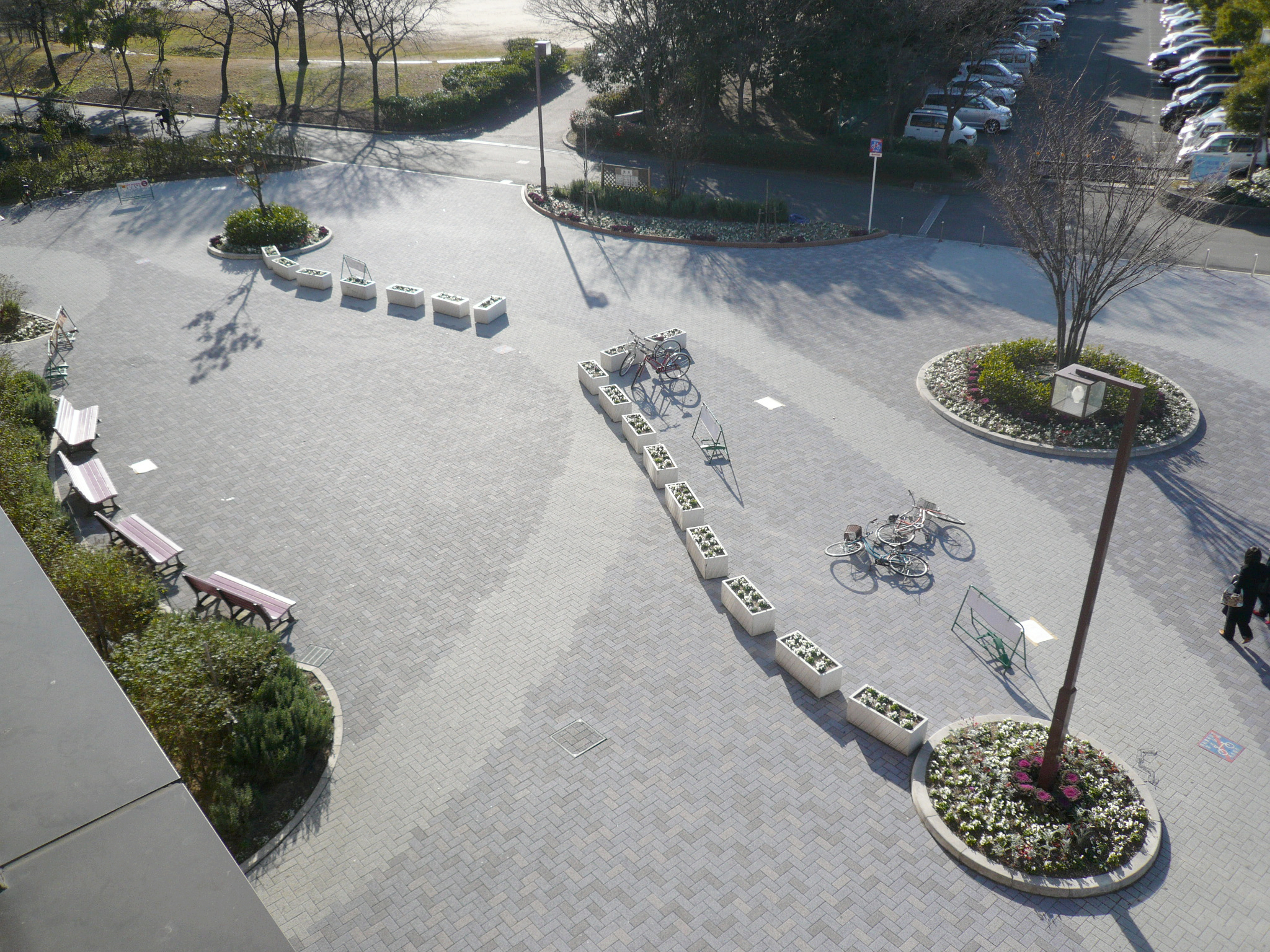 AONAMI Line Arakogawa-koen Station.